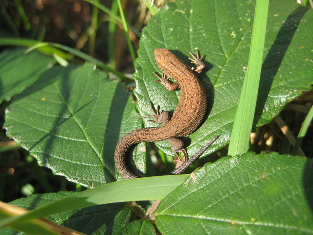 Common lizard A common lizard or viviparous lizard (Lacerta vivipara) basking in the sun on a leaf beside the coast path near Clovelly.